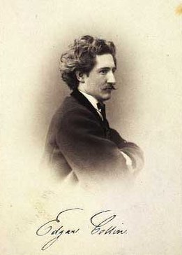 Edgar Collin (1836-1906), Danish writer and journalist